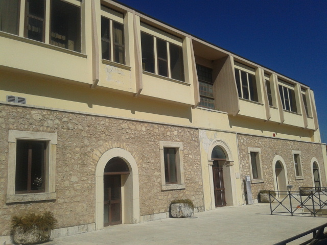 Botticelli palace, Collelongo, Abruzzo, Italy